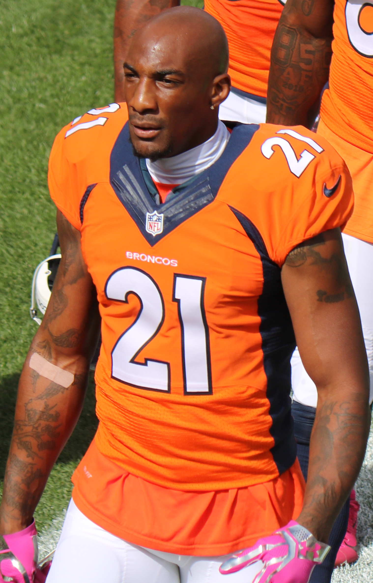 Aqib Talib, a player on the National Football League.